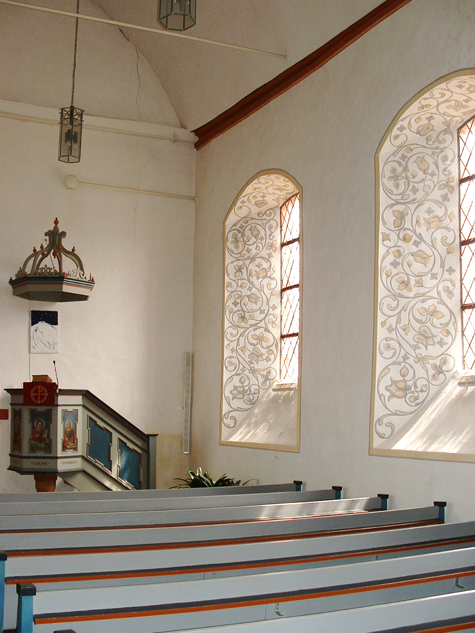 Protestant church Hirschfeld, Hunsrück, Germany, Rhineland-Palatinate, pulpit and baroque wall paintings